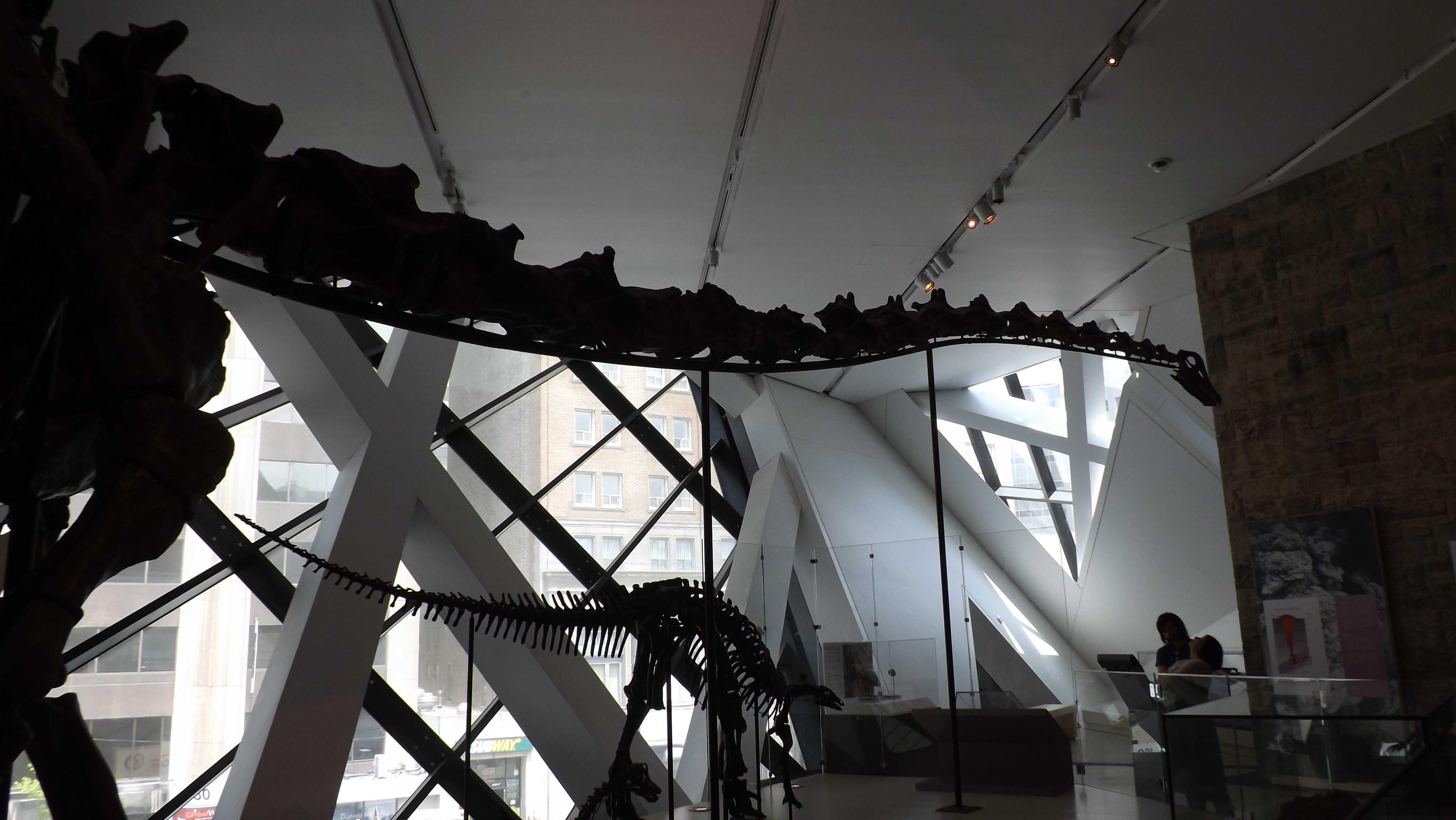 Barosaurus in gallery